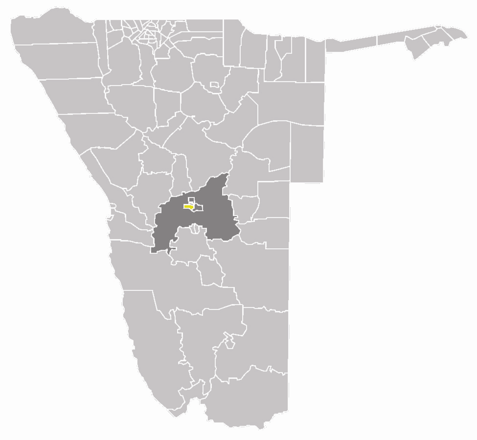 map of the Windhoek West constituency within the Khomas region, Namibia